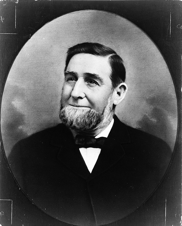 Captain Lorenzo Baker, who first brought Jamaican bananas to the United States in June, 1870. Baker would go on to co-found the United Fruit Company.